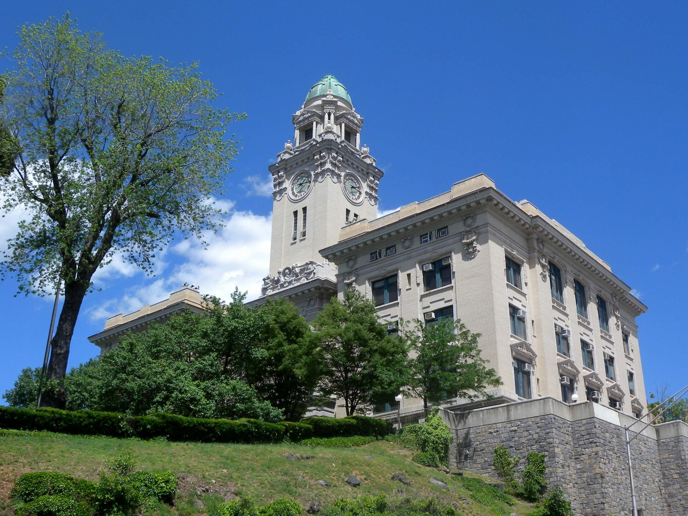 Looking northeast from Broadway at City Hall on a sunny early afternoon.